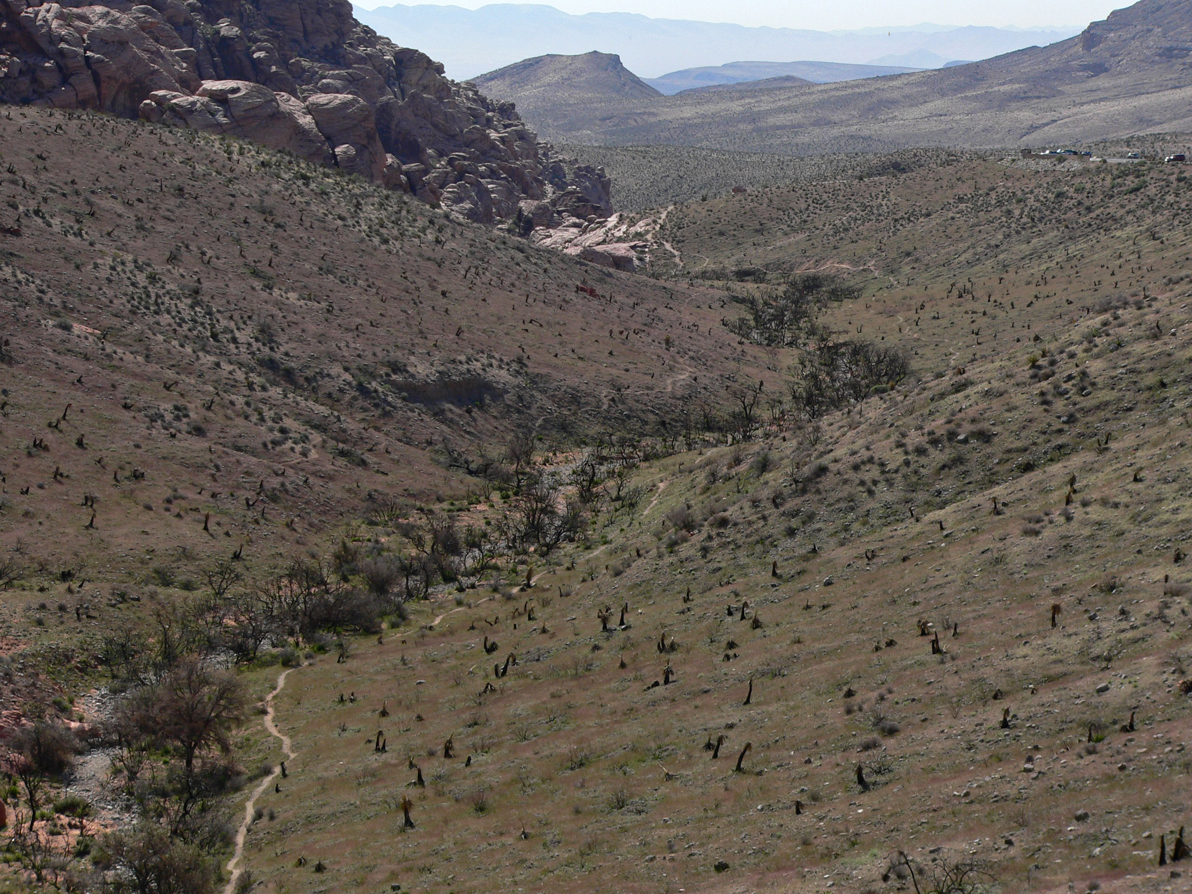 Burned gully adjacent to the Calico Hills, Red Rock Canyon, southern Nevada